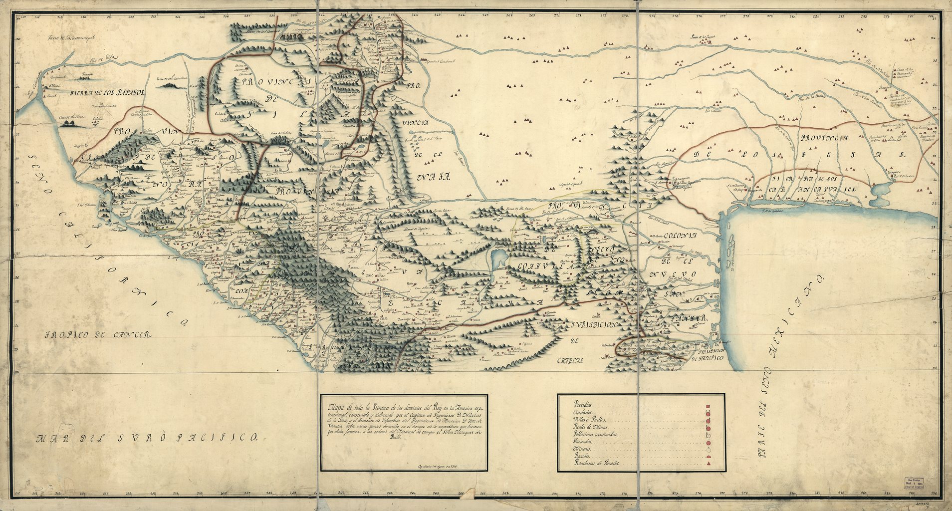 This pen-and-ink and watercolor map of the internal provinces of New Spain (present-day Mexico and the U.S. Southwest) is a composite prepared from a map of 1771 produced by José de Urrútia and Nicolas de la Fora on the basis of their 1766-68 expedition to survey the presidios and defenses of northern New Spain. A note on the map indicates that it is a copy made in Mexico on August 7, 1816. The map includes pictorial representation of mountain ranges, streams, administrative boundaries, presidios, European and Native American settlements, mines, missions, and the coastline and coastal features. Geographic features clearly shown on the map include the Colorado River, the Gulf of California, the Gulf of Mexico, and the lands inhabited by the Apache Indians.